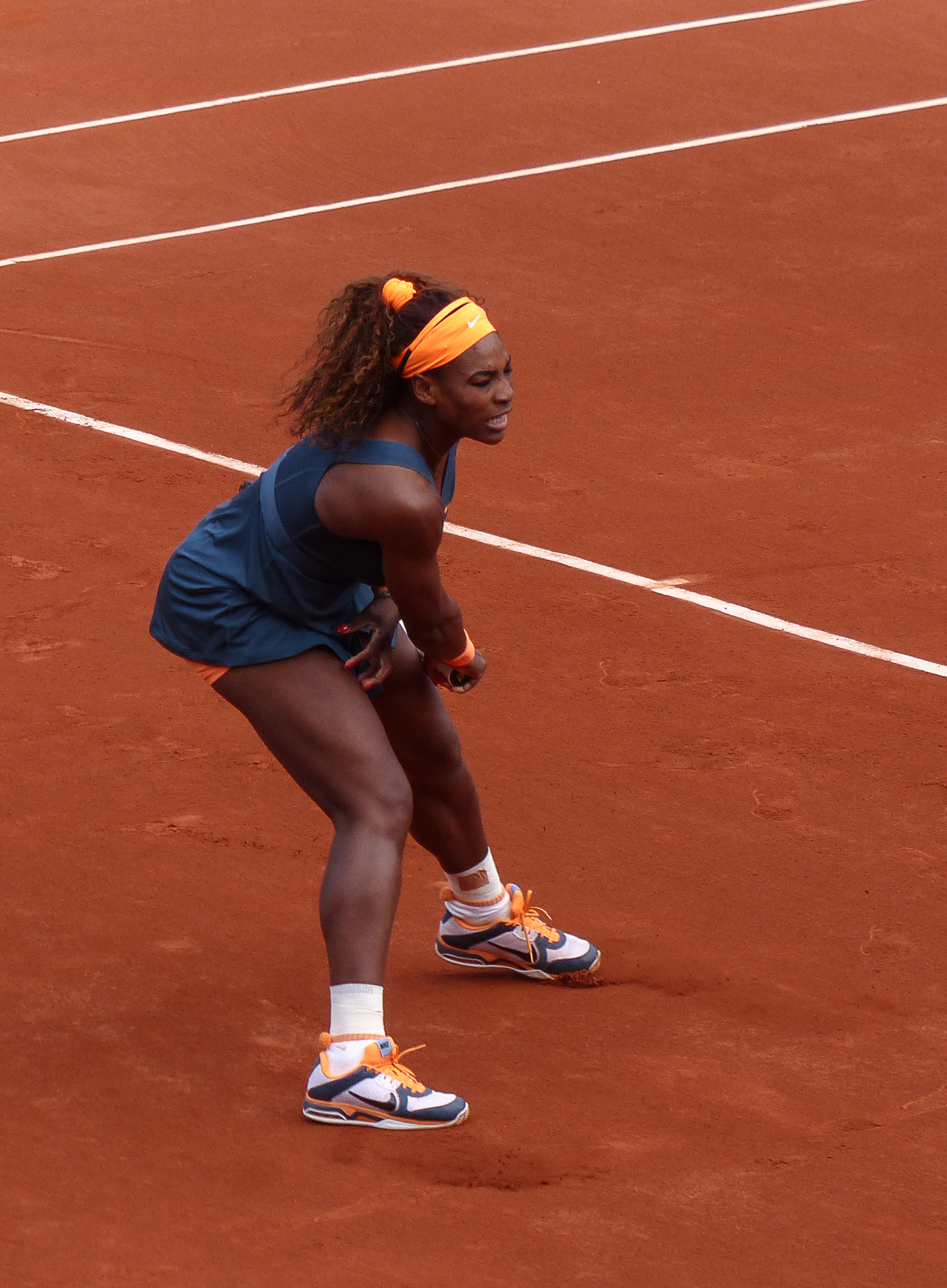 2ème tour Roland Garros 2013 : Serena Williams (USA) def. Caroline Garcia (FRA)